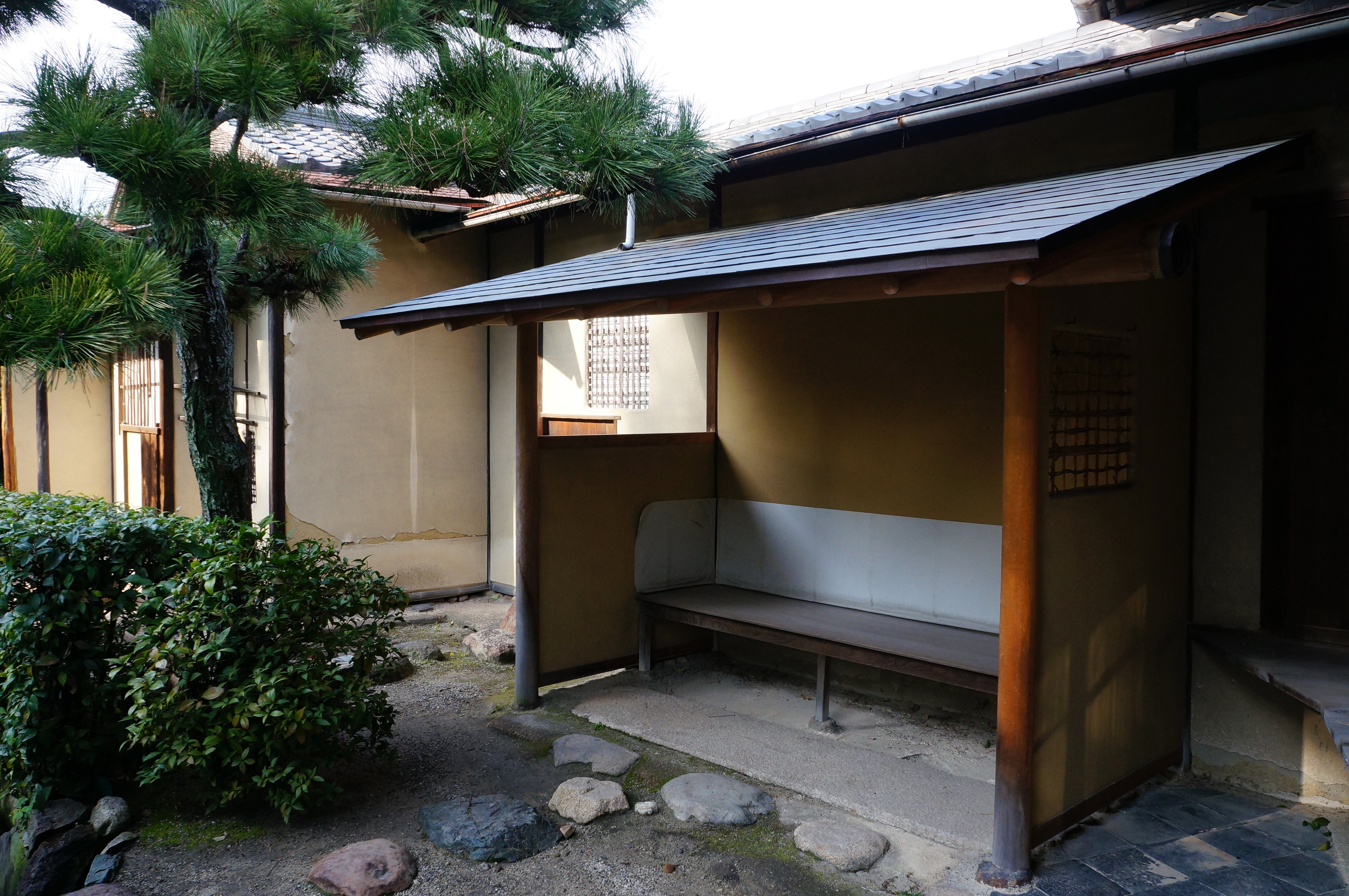 Nanshu-ji in Sakai, Osaka prefecture, Japan.